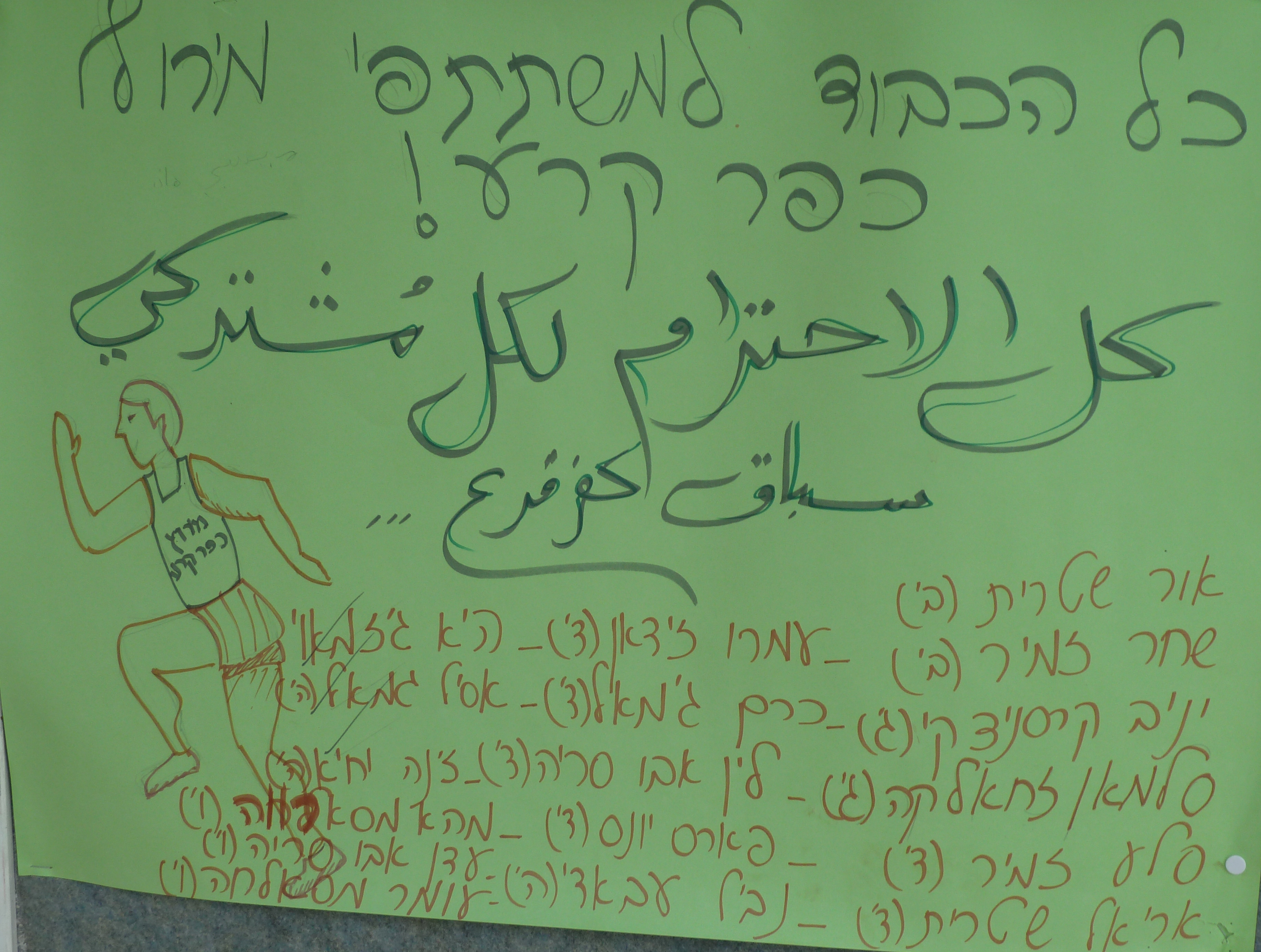 Hand in Hand – Bridge over the Wadi School, Kafr Qara